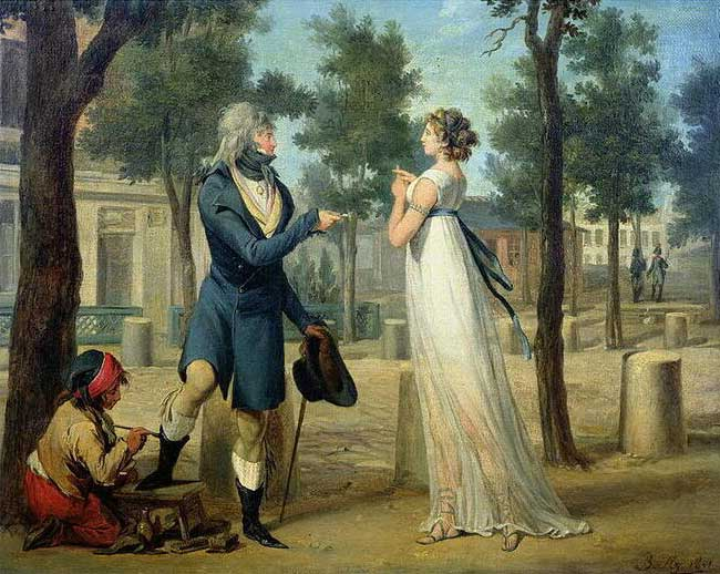 a painting by Louis-Léopold Boilly showing some of the transient and ephemeral extremes that accompanied the adoption of strongly neo-classically influenced styles in Paris during the second half of the 1790s (ca. 1797). The woman has been interpreted as a prostitute (who is disdaining the inadequate coin proferred by the fashionable gentleman getting his shoes shined at left), so her outfit obviously should not be taken as typical of trendy Parisian women's attire of the time. On the other hand, 18th-century and 19th-century streetwalkers did not generally wear clothing that looks extra "sexy" in 21st-century eyes as compared with normal women's attire of the time (streetwalkers sported faded finery worn in an inappropriate context more often than excessively revealing attire -- see Image:1787-prostitutes-caricature.jpg, for example), and the idea that such an outfit could be worn on the streets of Paris tells its own story (it could never have been worn outdoors in London).